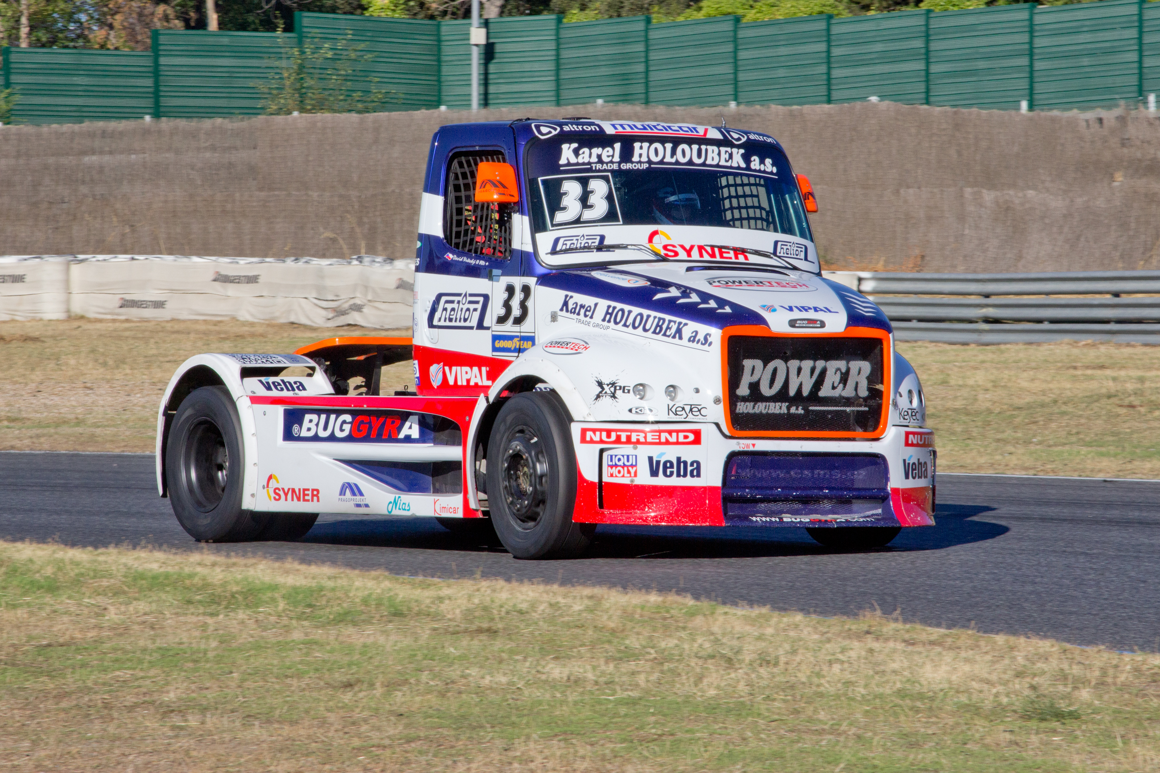 Truck pilot David Vršecký at the Spain Truck GP 2013.